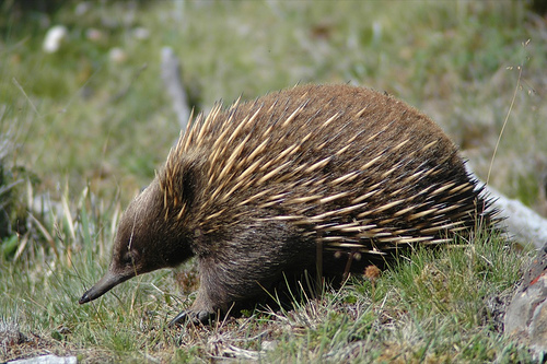 Tachyglossus aculeatus at Cradle Mountain